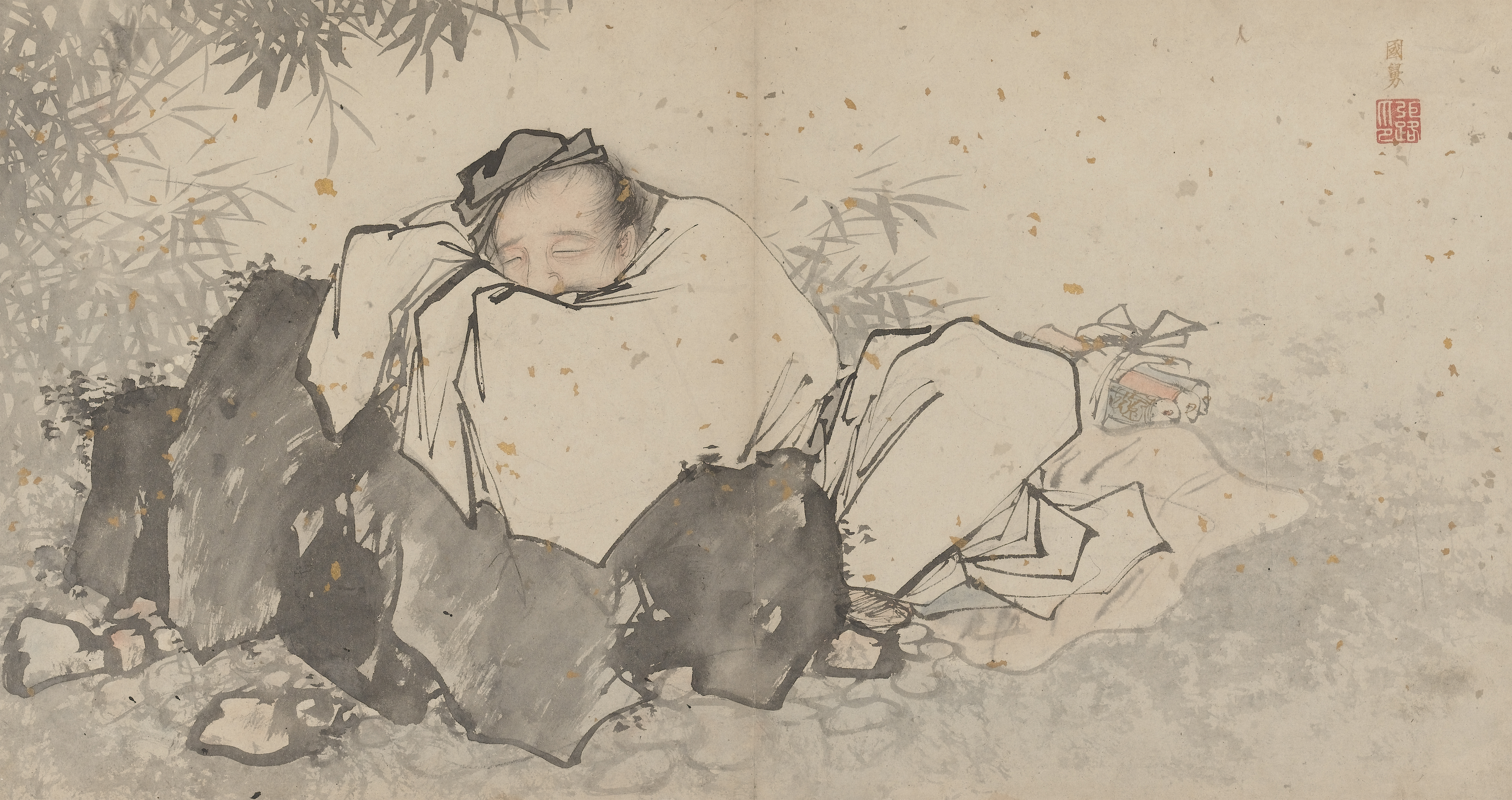 Depiction of the Daoist immortal Cao Guojiu